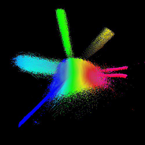 View to PubChem Chemical Space. Its a projection of 42 dimentional MQN-property space of PubChem(with 5 virtually created libraries of molecules) using PCA. Color coding is according to fraction of ring atom counts in molecules.